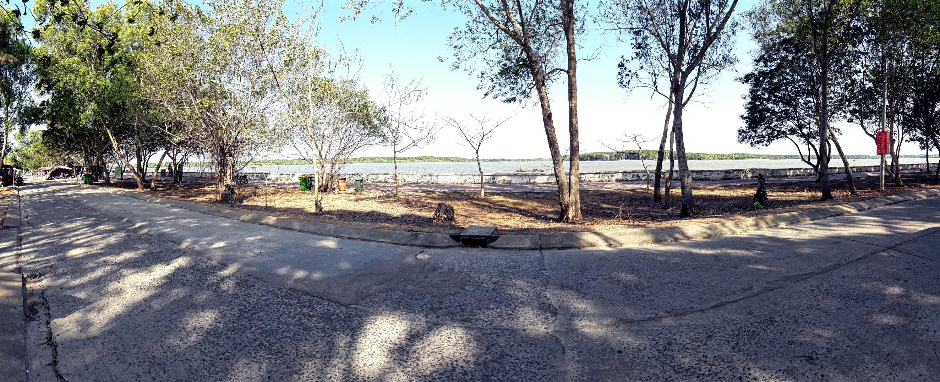 A road in Tam Thon Hiep Ward, Can Gio District, HCMC, Vietnam